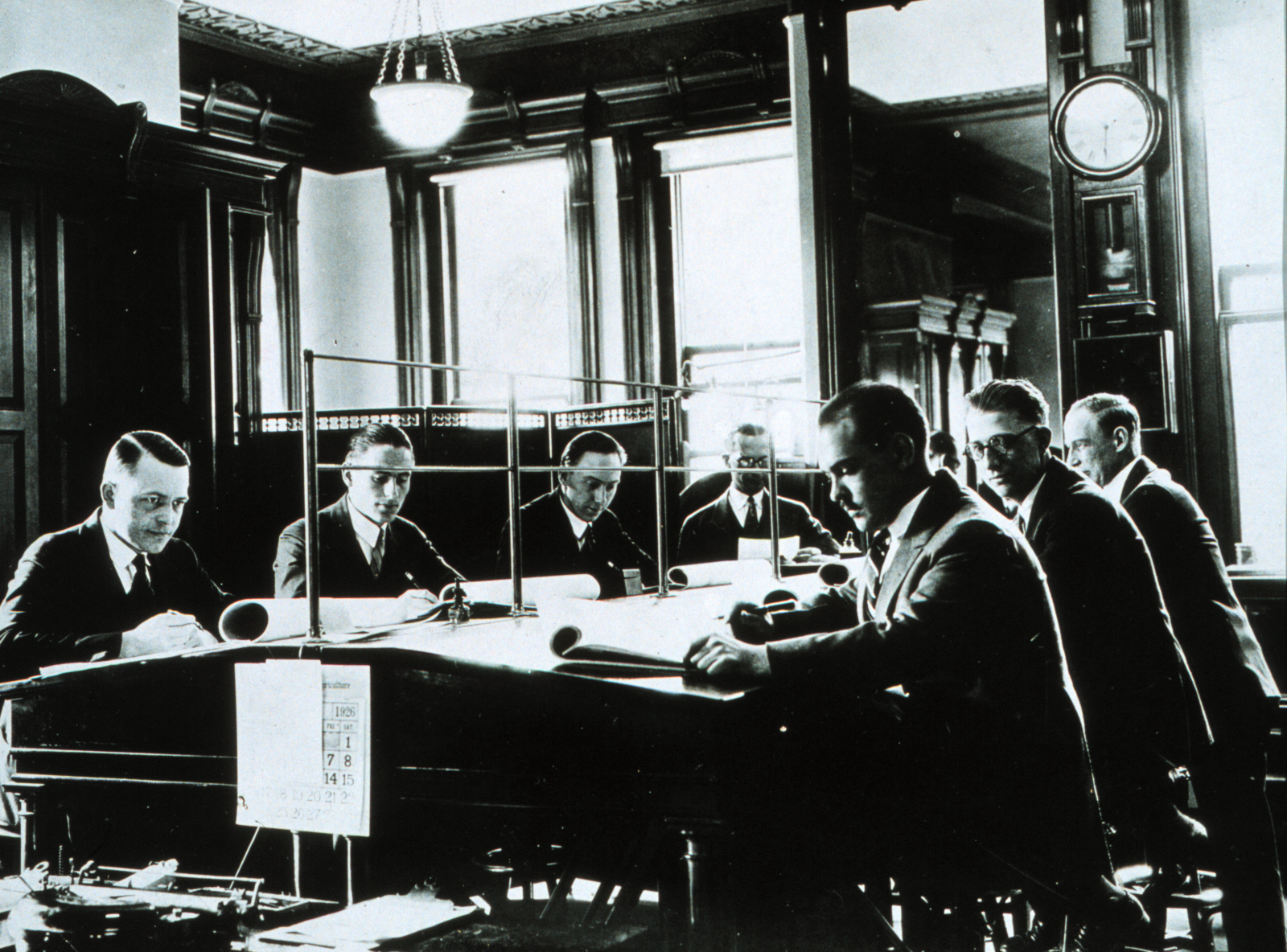 The Weather Bureau Forecast Office. This is presumably inside the old United States Weather Bureau Building at the southwest corner of M & 24th Streets NW, Washington, D.C.